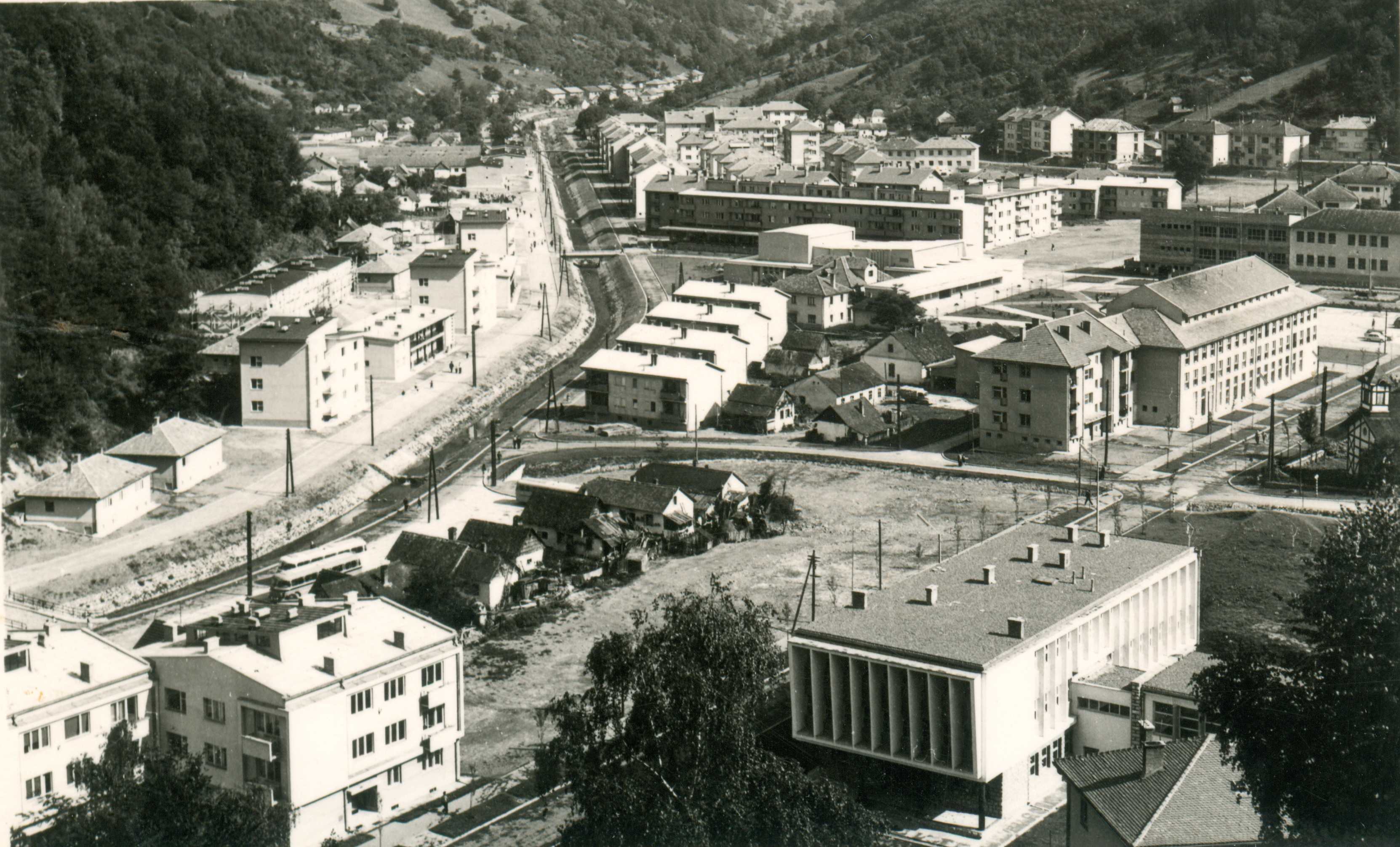 Majdanpek in the 1960s Srpski (latinica): Majdanpek šezdesetih godina prošlog veka